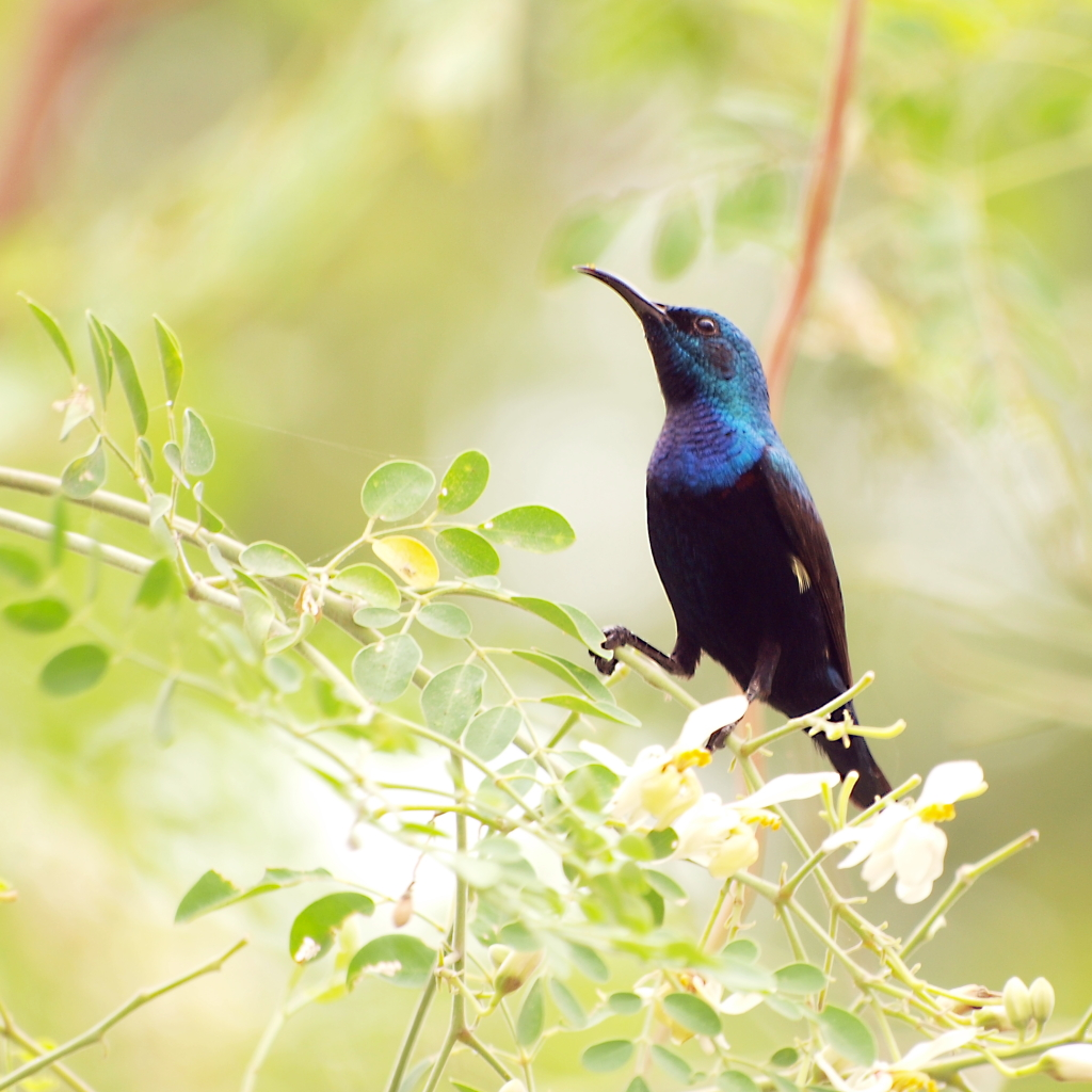 Cinnyris asiaticus (male in breeding plumage) This tiny (~10cm) bird was a constant presence in the photographer's backyard over winter in Dhrangadhra, Gujarat, India